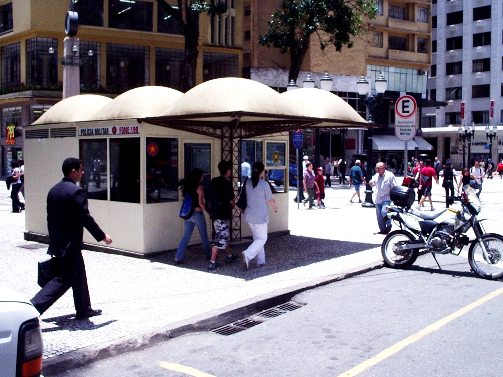 Police post of Military Police of Paraná State, Brazil.